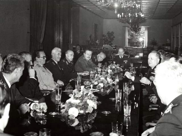 Prijem delegacije JNA, na čelu sa generalom armije Nikolom Ljubičićem kod predsednika Tita, Brioni, 21.12.1978. Inventarski broj: 1978 689 099